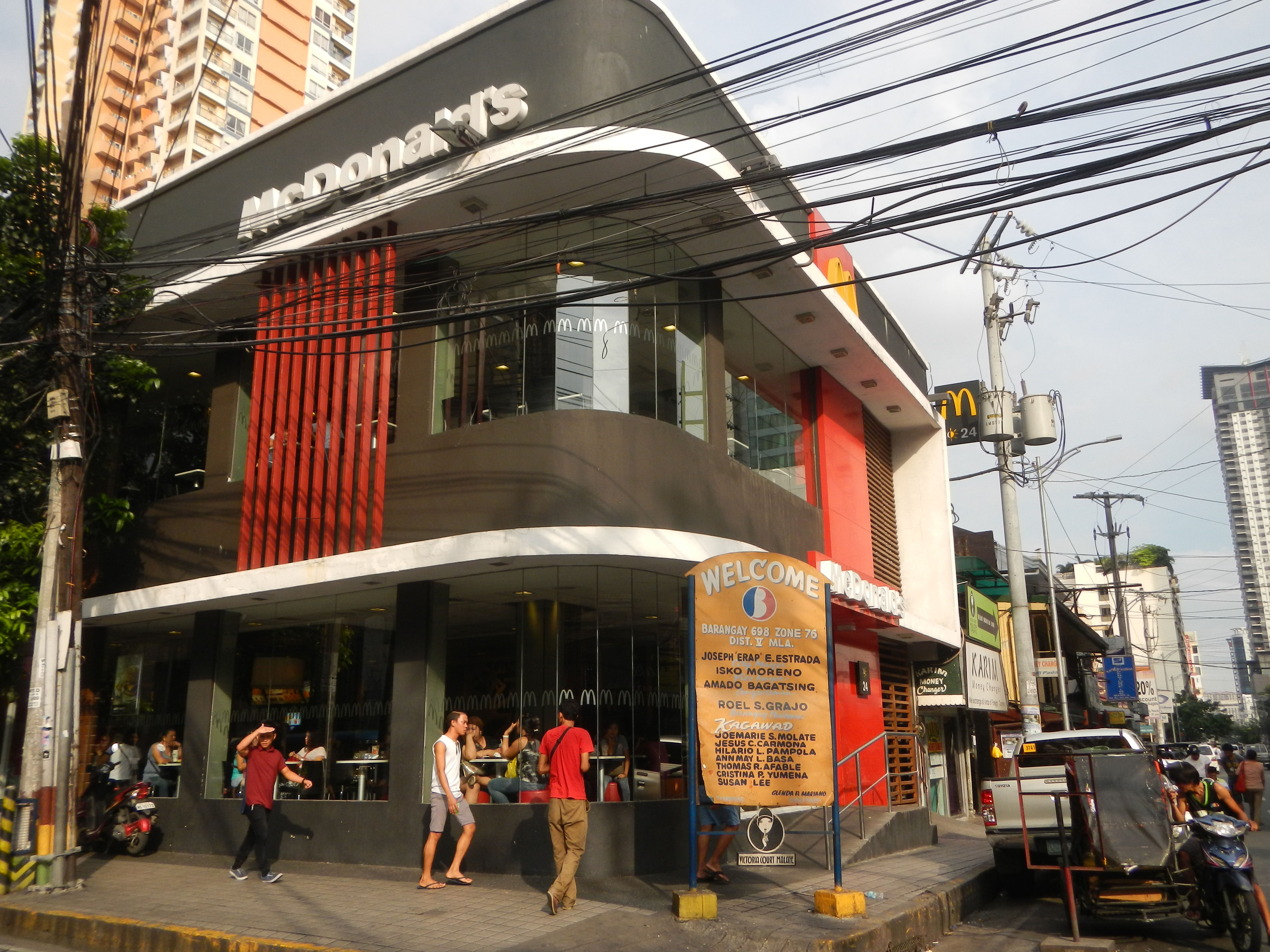 McDonald's in Manila Malate, Manila Palm Plaza Hotel (along Mabini Street corner Pedro Gil Street corner General Malvar Street corner Del Pilar Street M. H. del Pilar Street from Roxas Boulevard (Malate, Manila section) of Roxas Boulevard in the List of eponymous streets in Manila List of roads in Metro Manila, Major roads in Manila, Malate, Manila (in the List of barangays of Metro Manila, Legislative districts of Manila Barangays 669, Zone 72, 698, 699, Zone 76, 700, 701, Zone 77, 719, 720 & 721, Zone 78, District V, Malate, Manila, City of Manila).